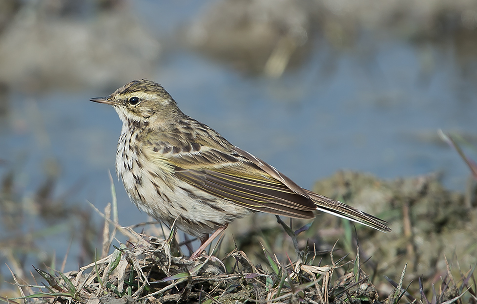 January, 2015